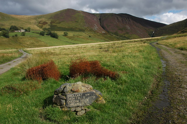 Dash valley The metalled road on the left goes to Dash Farm, which can be seen across the valley, while the unmetalled road on the right continues up the Dash valley, past Dash Falls, which are just visible at the valley head, further on the road then passes Skiddaw House and eventually emerges at Threlkeld.